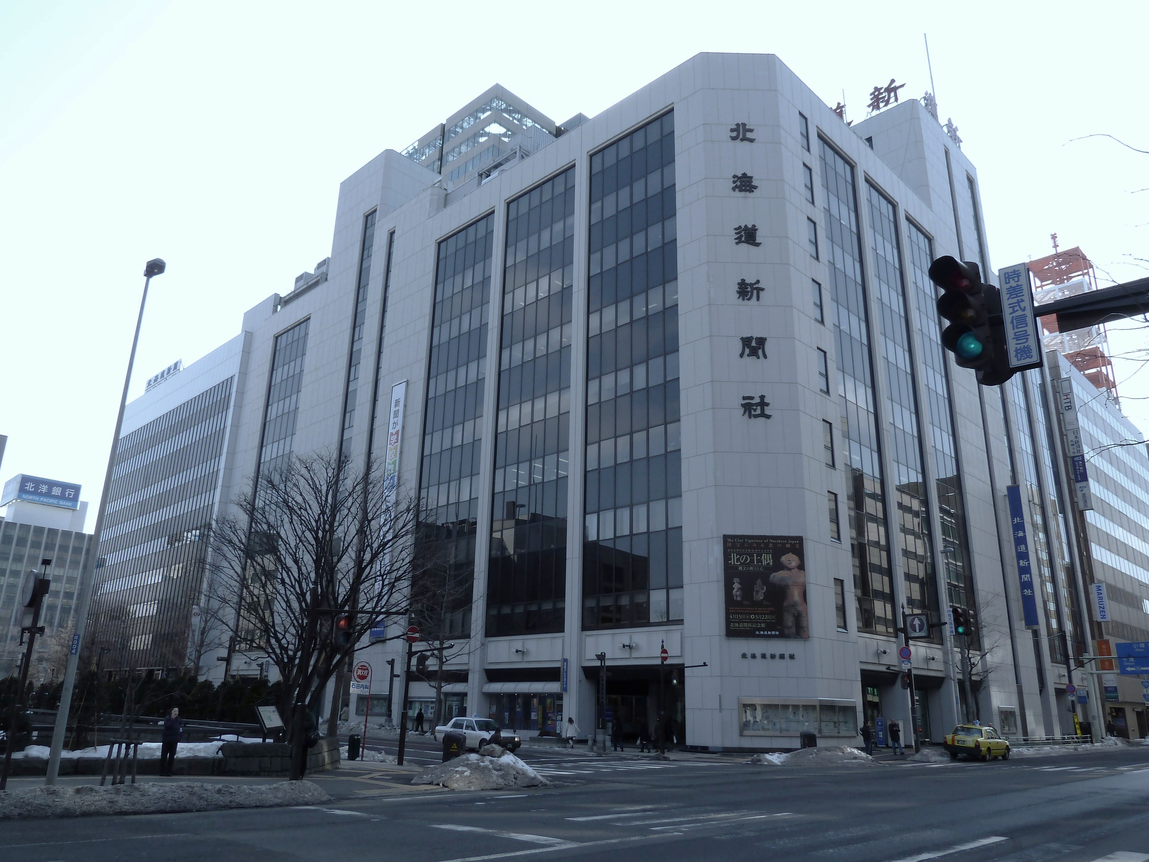 北海道新聞社